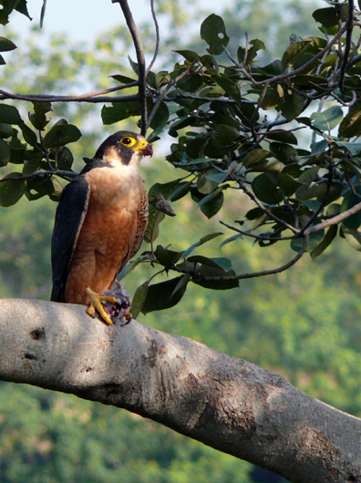 This image of Peregrine Falcon (Falco peregrinus) was taken in Panna Tiger Reserve.